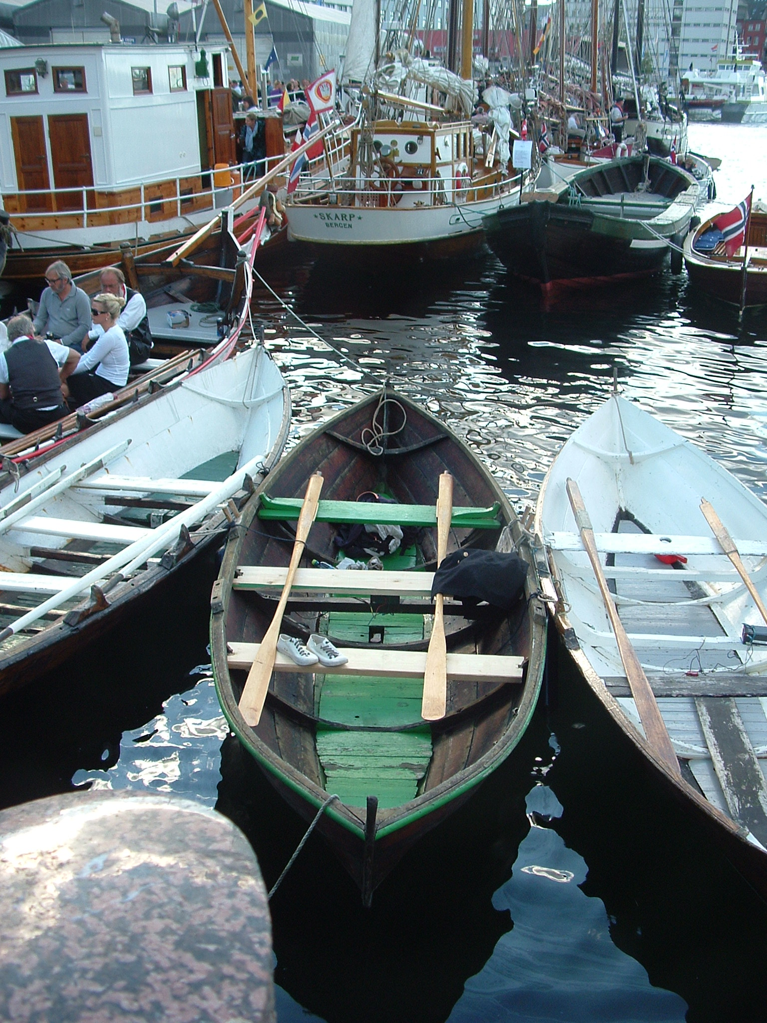 Norwegian rowingboats (the white-insiders also good for sailing) traditionally and still built in Hardangerfjord-area